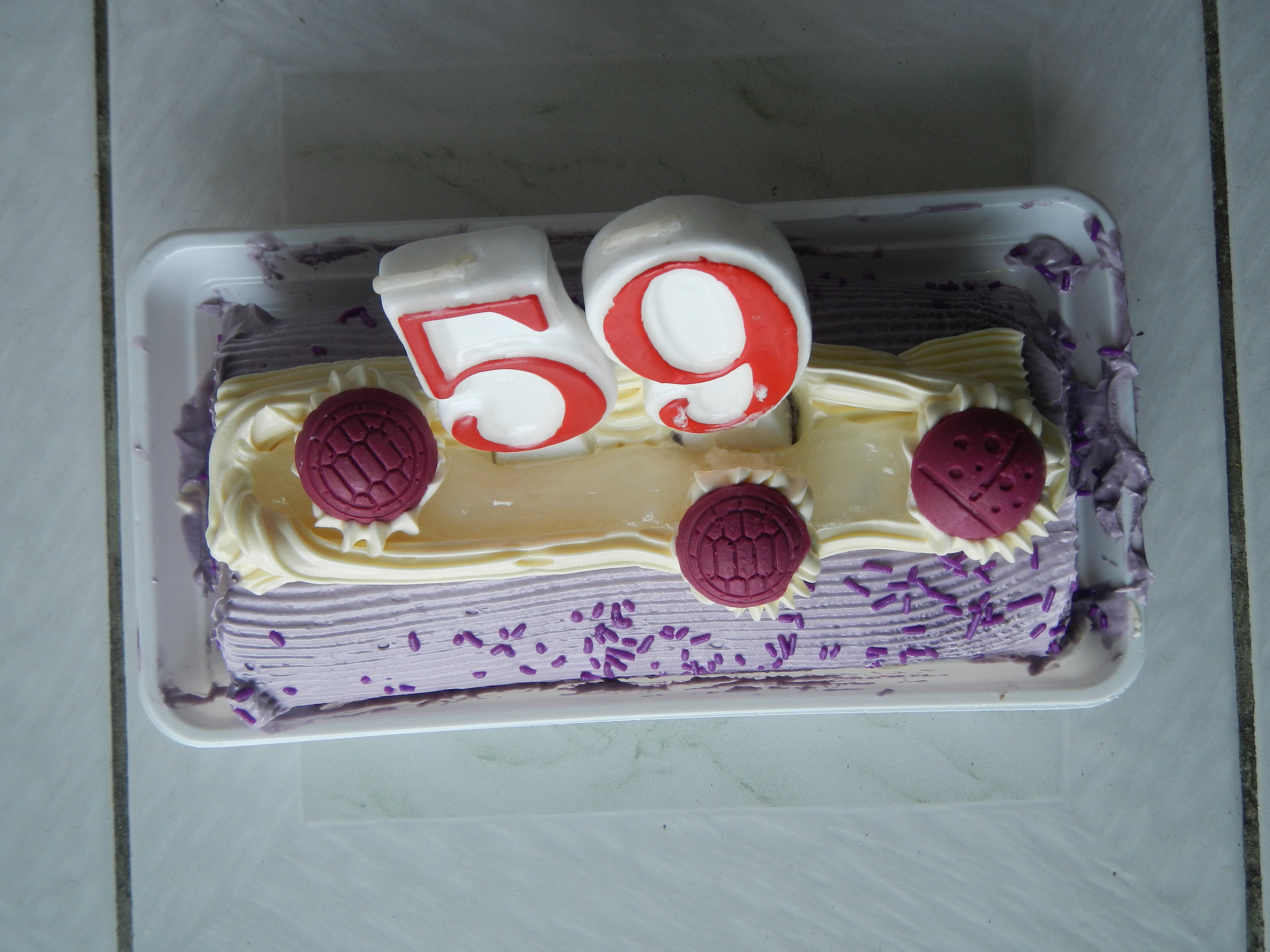 Ube Macapuno cake roll